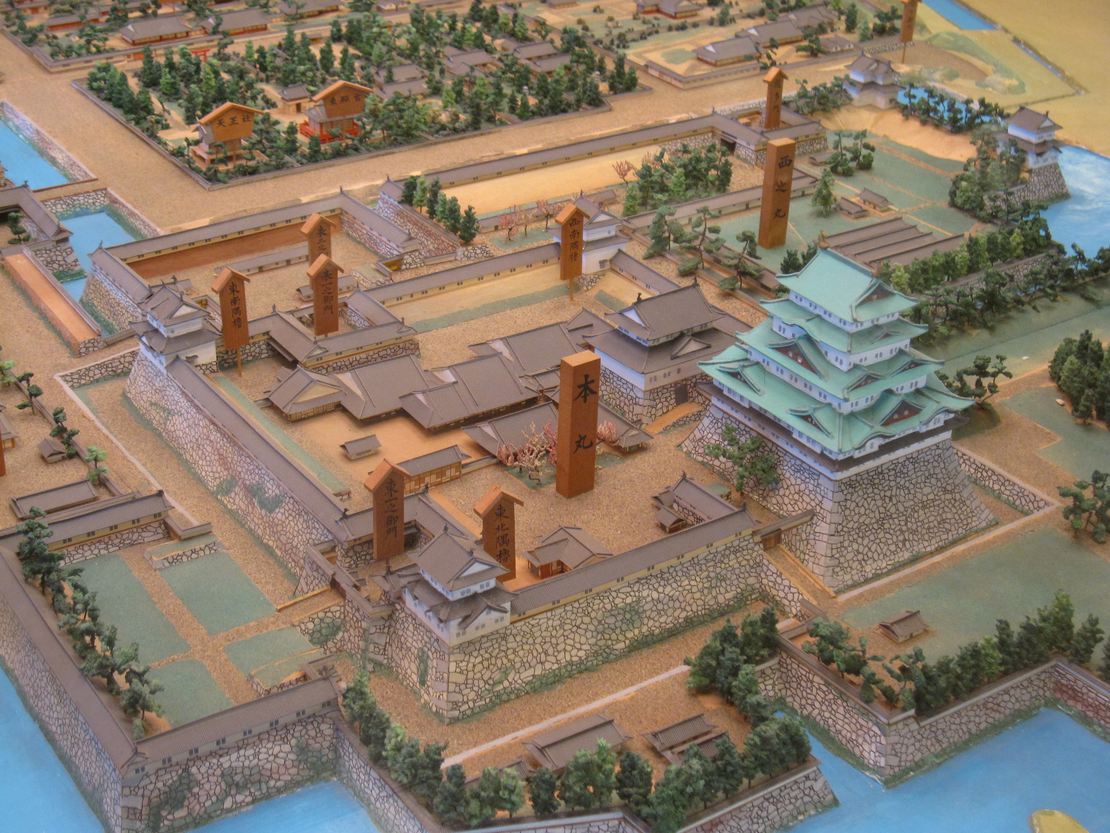 Nagoya Castle